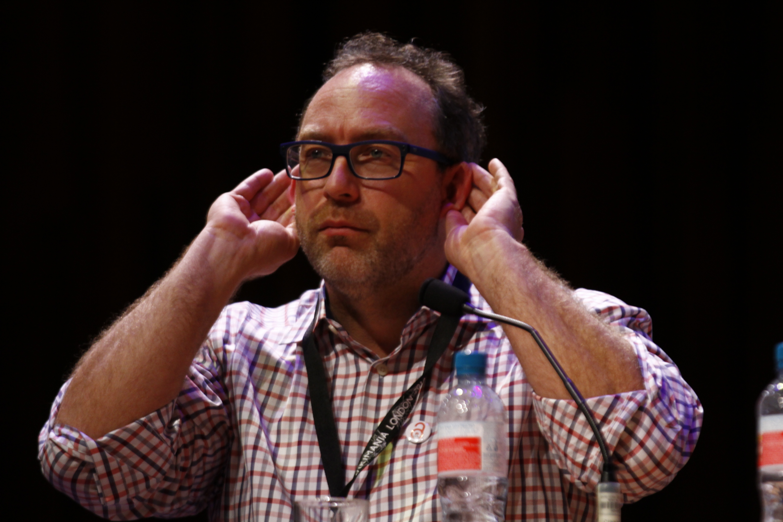 Board Q&A, Wikimania 2014, Day 1